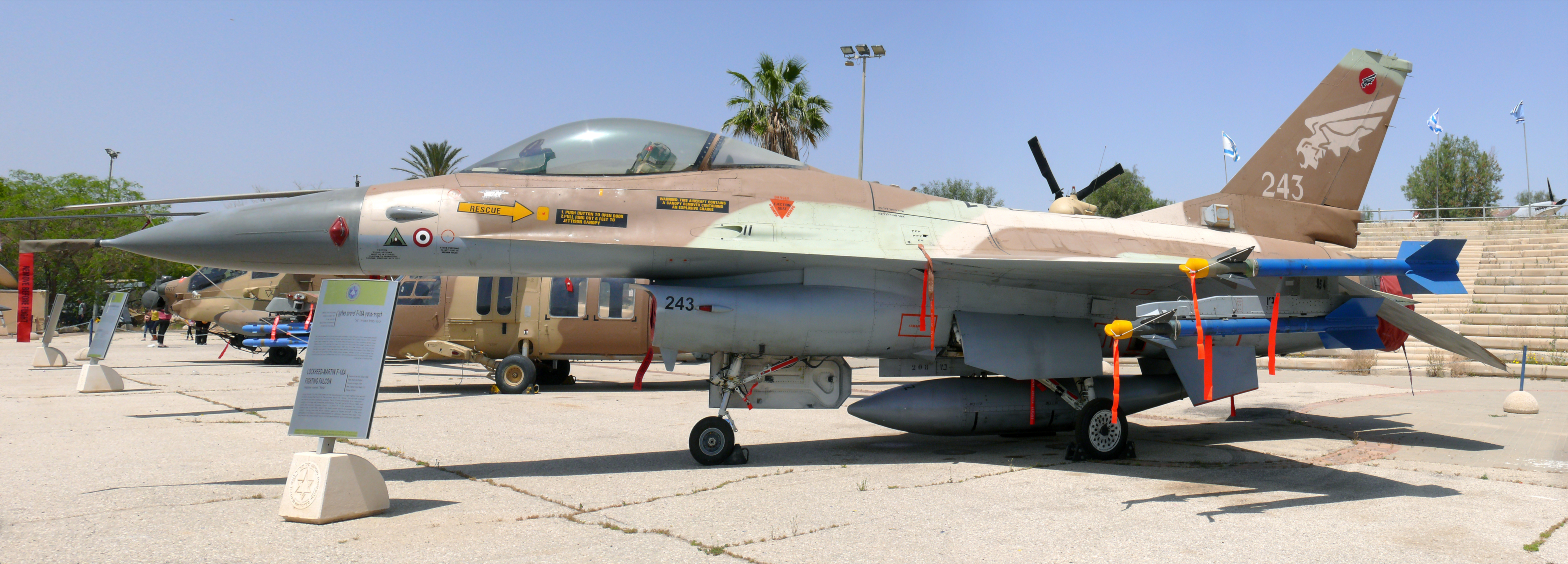 Ilan Ramon's IAF F-16A Netz 243. This F-16 is credited with one shot-down and the destruction of the Iraqi nuclear reactor when flown by Ilan Ramon